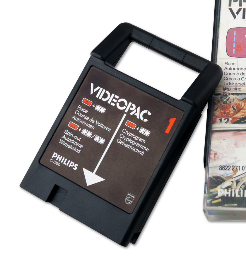 2009-046-278 Philips Videopac race cartridge 1